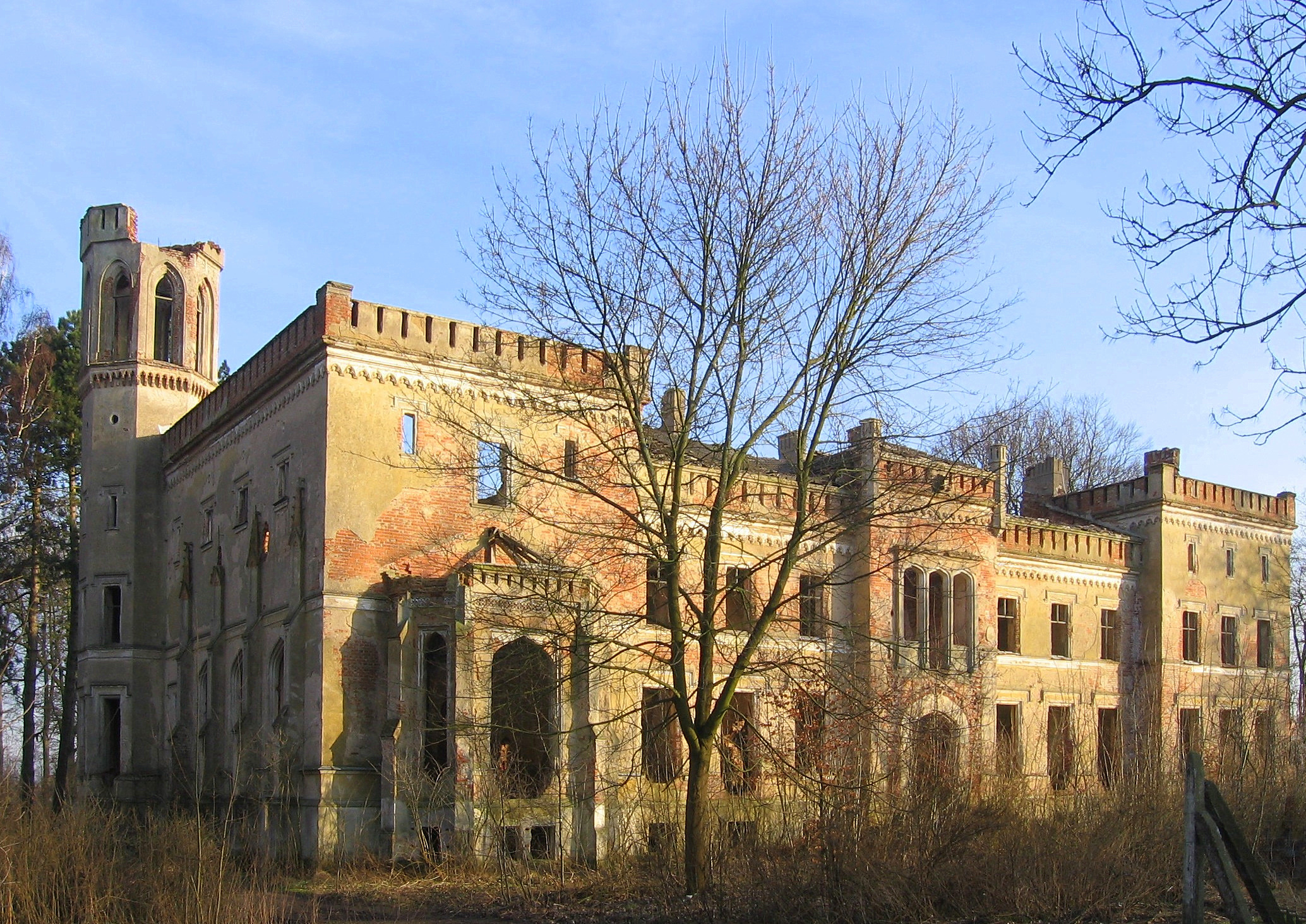 Palace in Otok, Poland